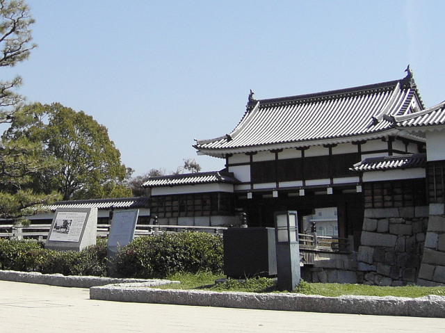 Gate of Hiroshima castle